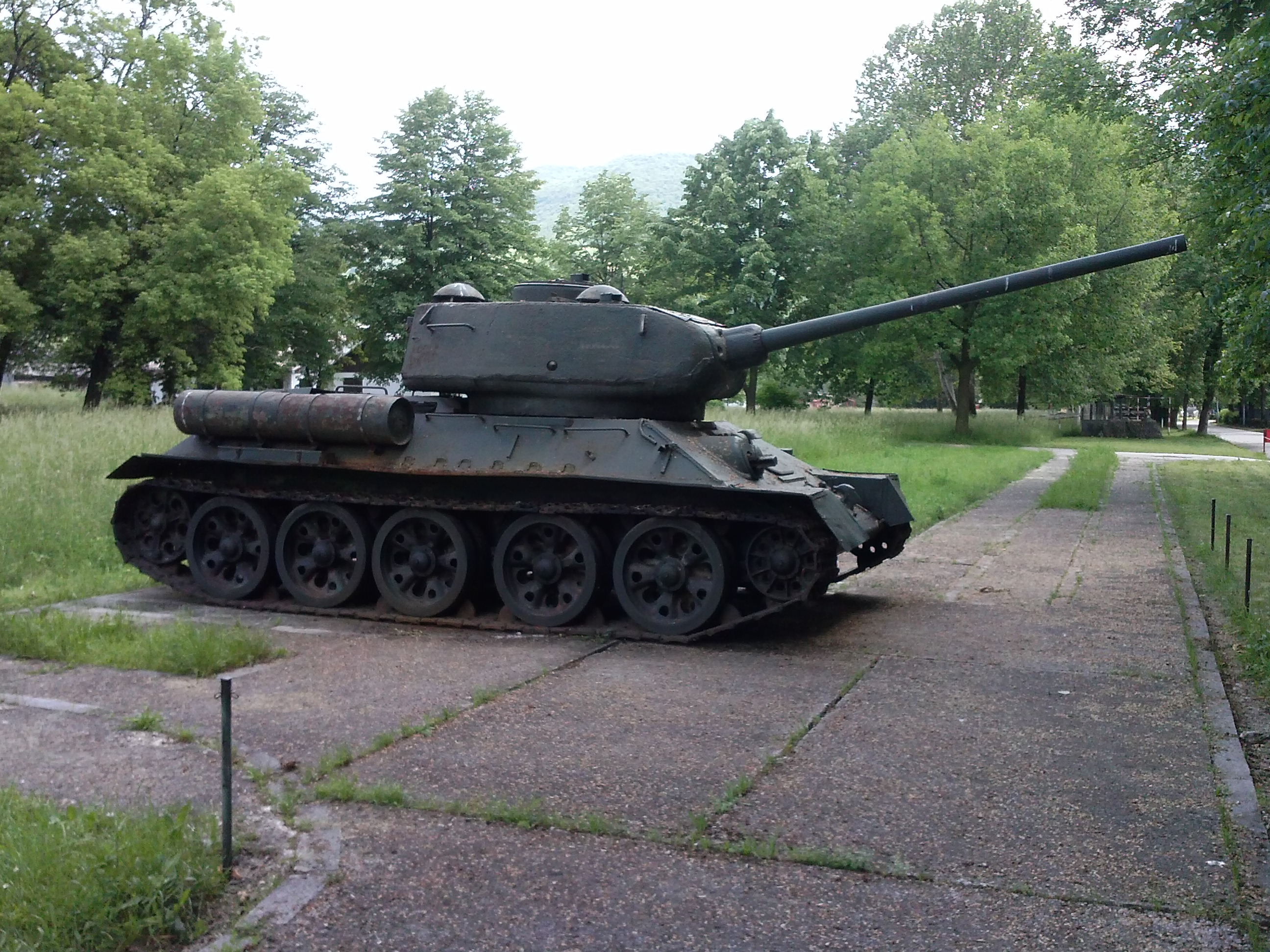 T-34-85 in military base in Zenica